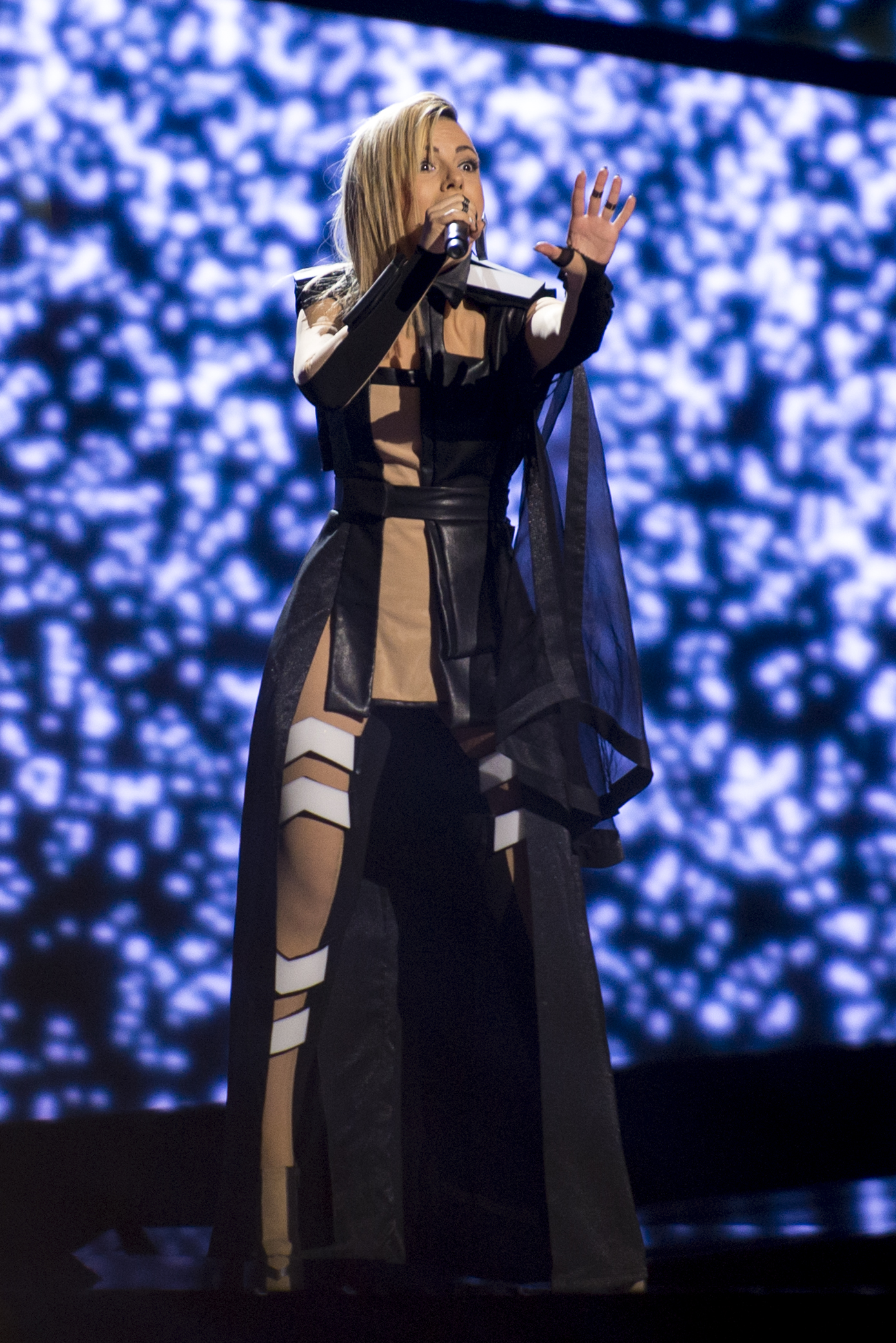 Poli Genova representing Bulgaria with the song "If Love Was a Crime" during a rehearsal before the second semi final of the Eurovision Song Contest 2016 in Stockholm. (Help translate this text)